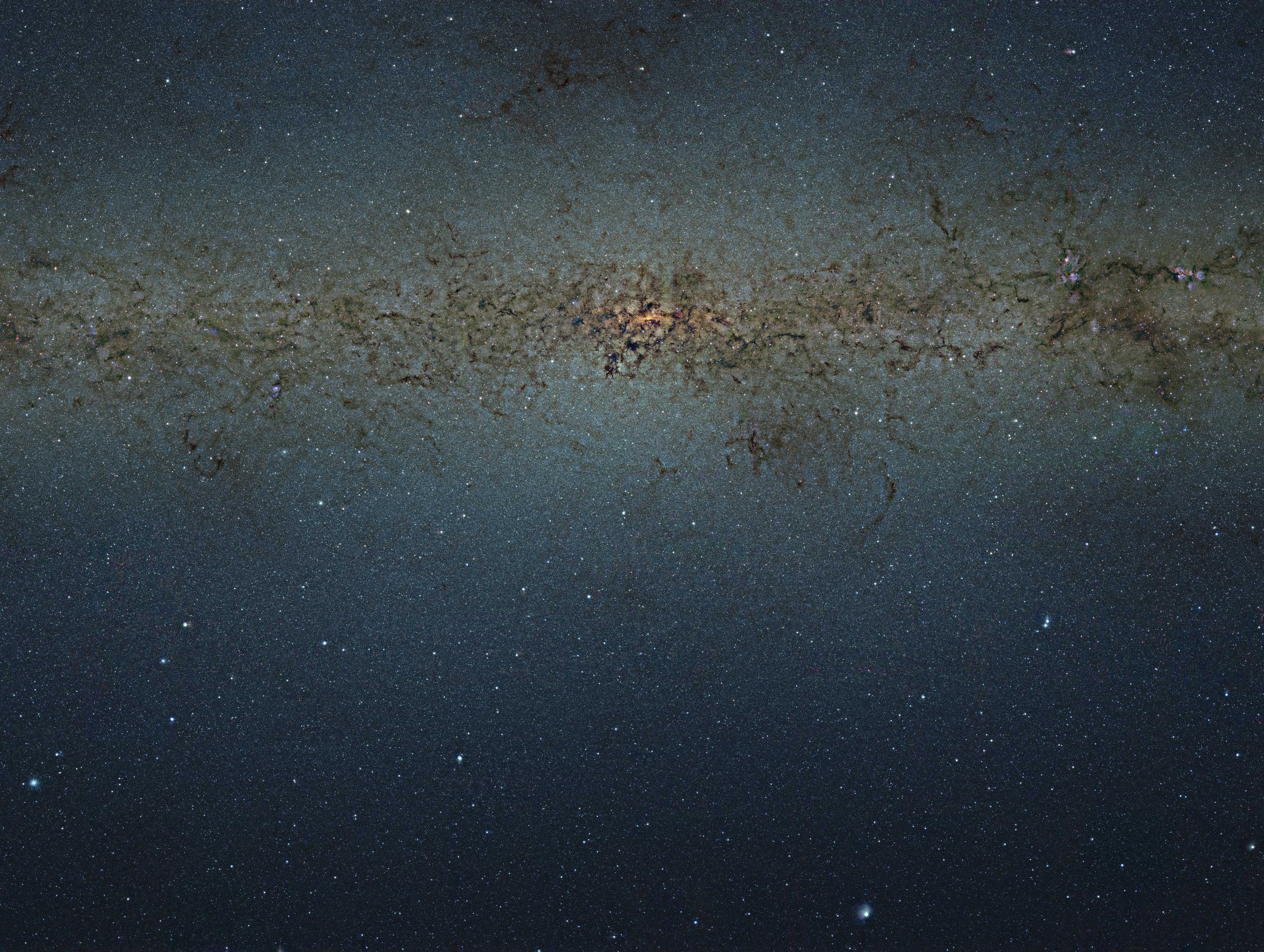 A lower resolution (22 megapixel) version of a 9 gigapixel mosaic image of the central Milky Way, from the VISTA infrared telescope at ESO's Paranal Observatory in Chile. Further information: ESO press release, scientific paper